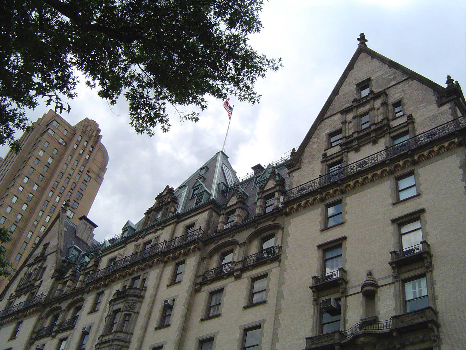 Photographed and uploaded by user:Geographer. Close-up of the Dakota, June 17, 2005